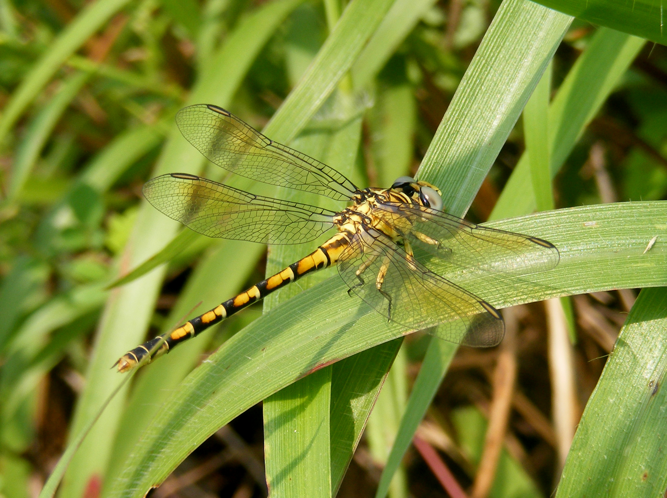 Paragomphus lineatus also called as Lined hooktail is a species of dragonfly in the family Gomphidae. It is a widespread species; recorded from India to Turkey